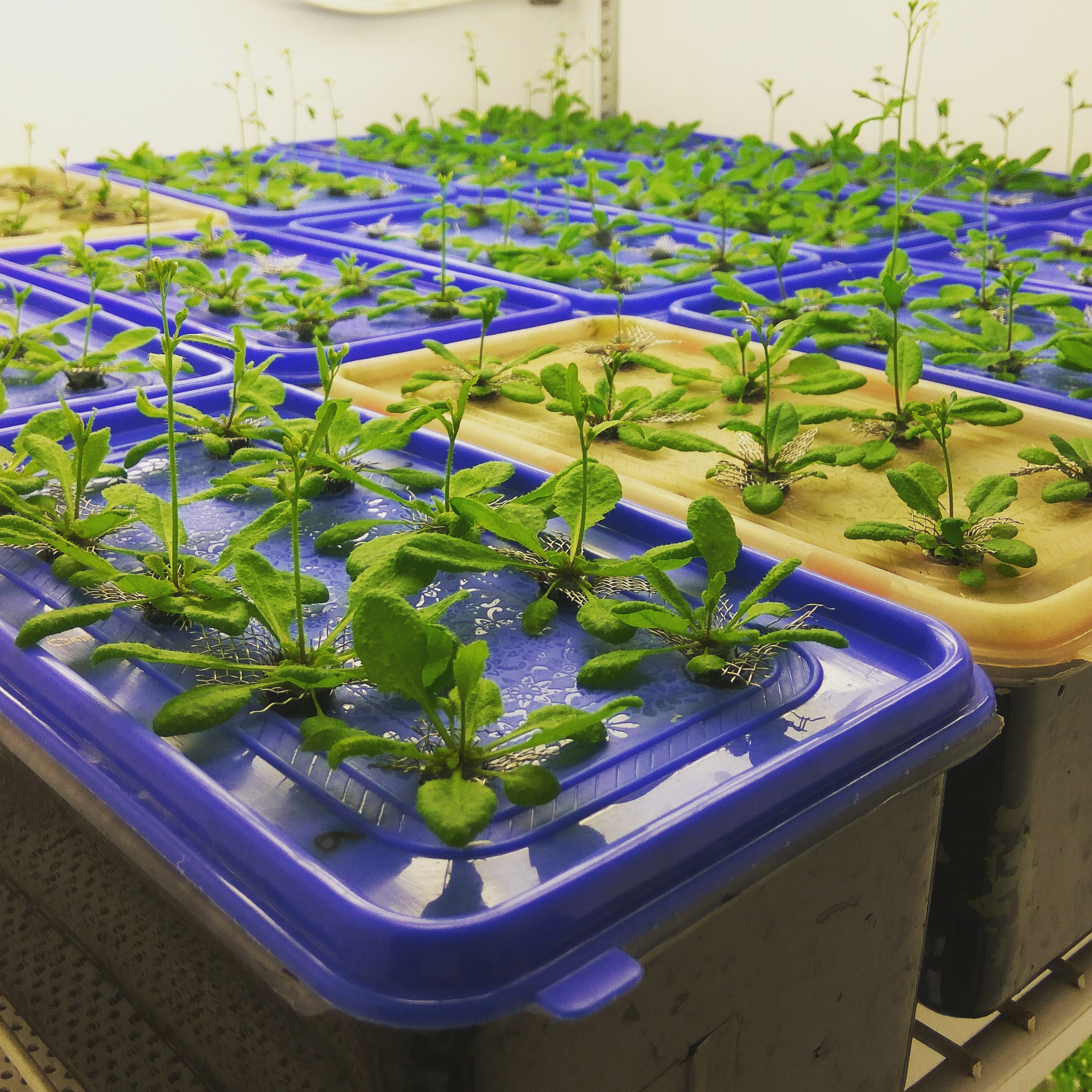 Arabidopsis thaliana plants grown in hydroponics medium